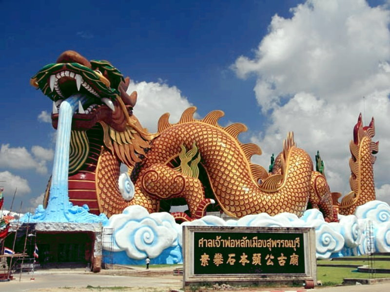 Main Gate, City Pillar Shrine, Suphanburi Province, Thailand 中文（香港）: 泰國，素攀府，素攀石本頭公古廟的大門